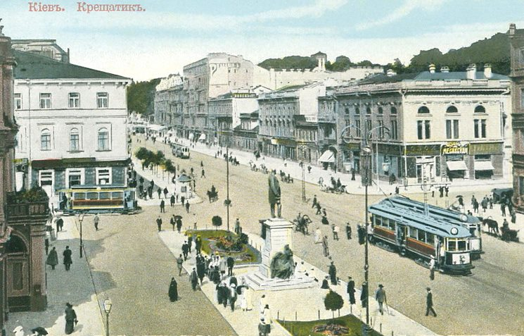 Kiev, prerevolutionary Kreschatik with the Stolypin monument and the first tram in the Russian Empire.